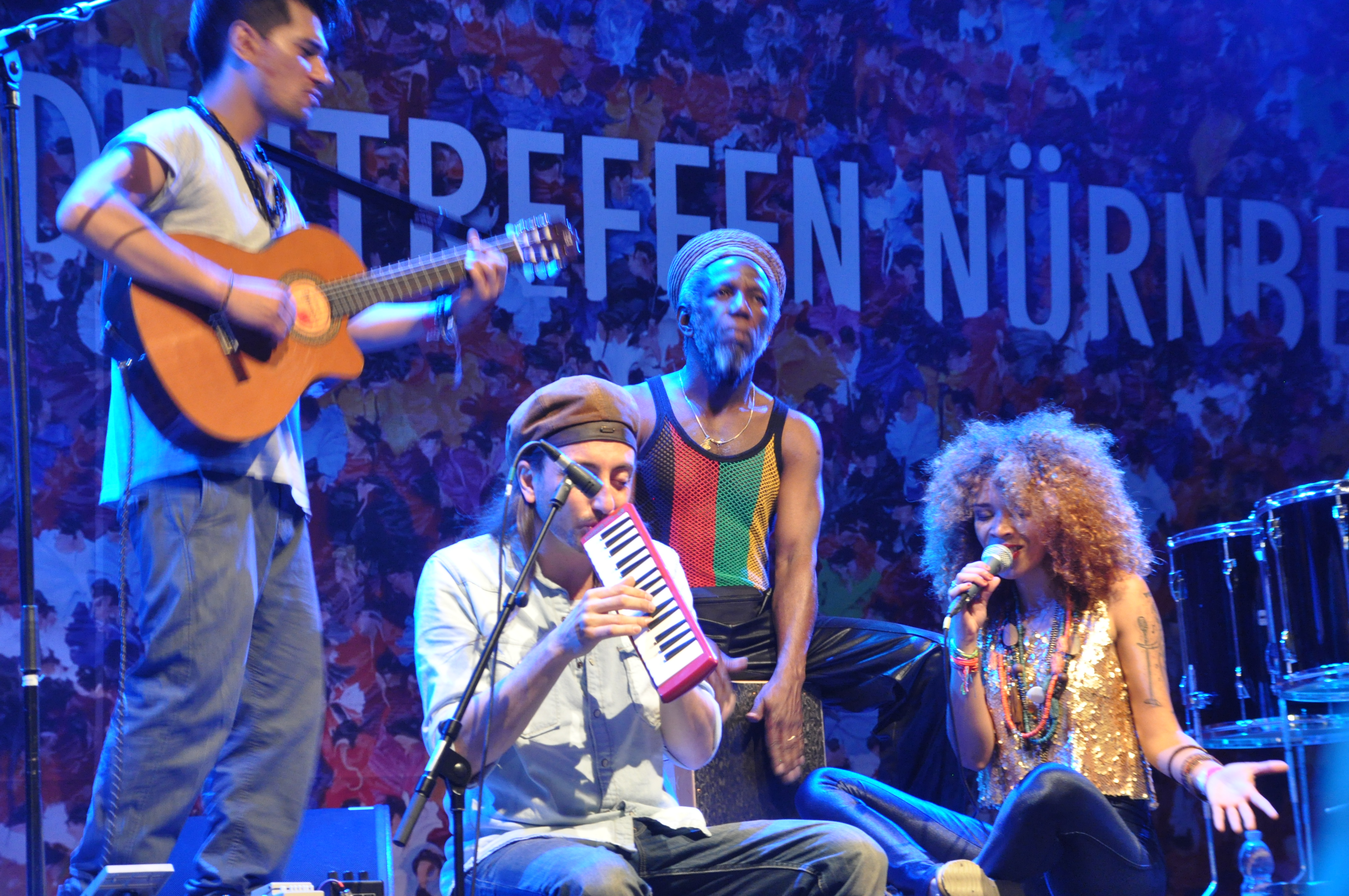 Flavia Coelho (Brazil), appearance at the 38th music festival "Bardentreffen" 2013 in Nuremberg, Germany, Schuett Isle stage